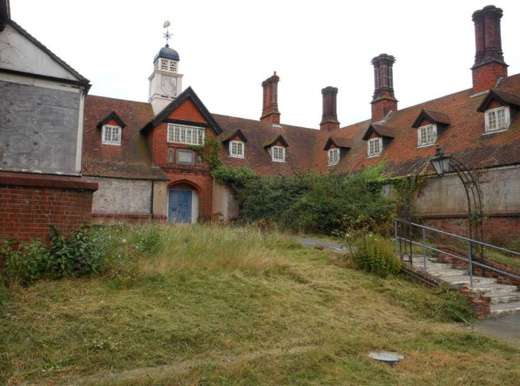 The Frank James Hospital in East Cowes, following the 7th Gathering of "Friends of The Frank James" action group.